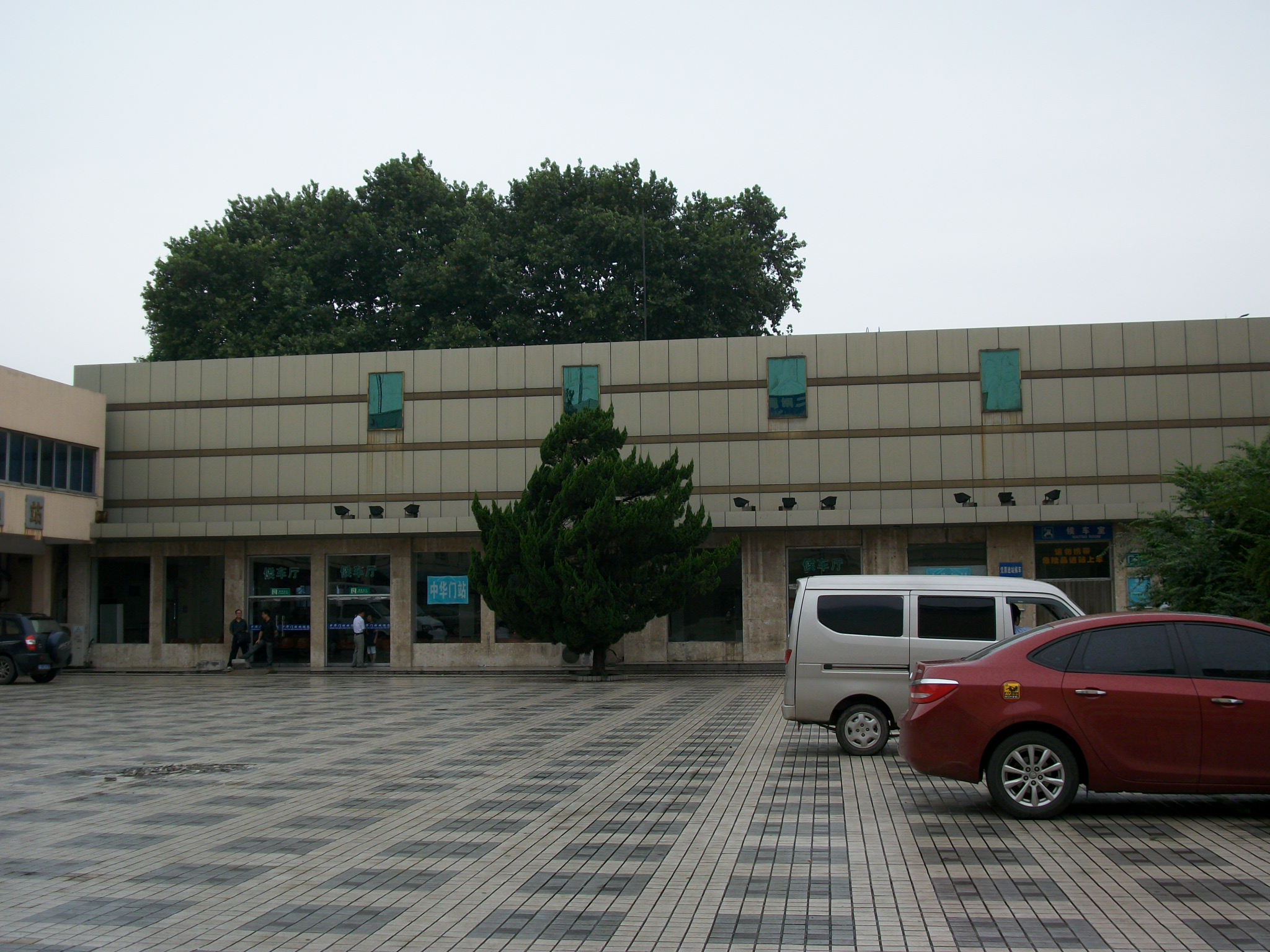 Zhonghuamen Railway Station.jpg